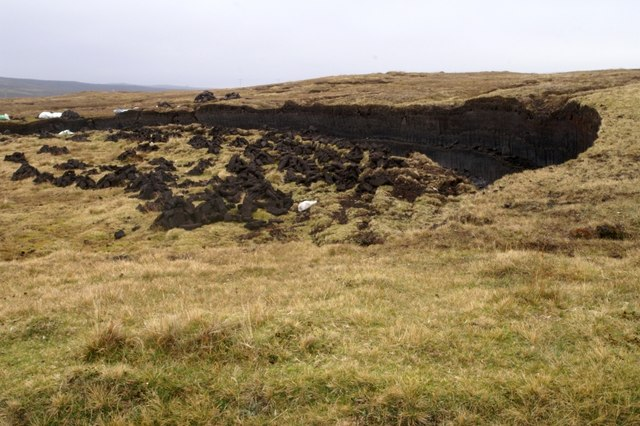 Peat curring at Ulsta, Yell (island), Shetland